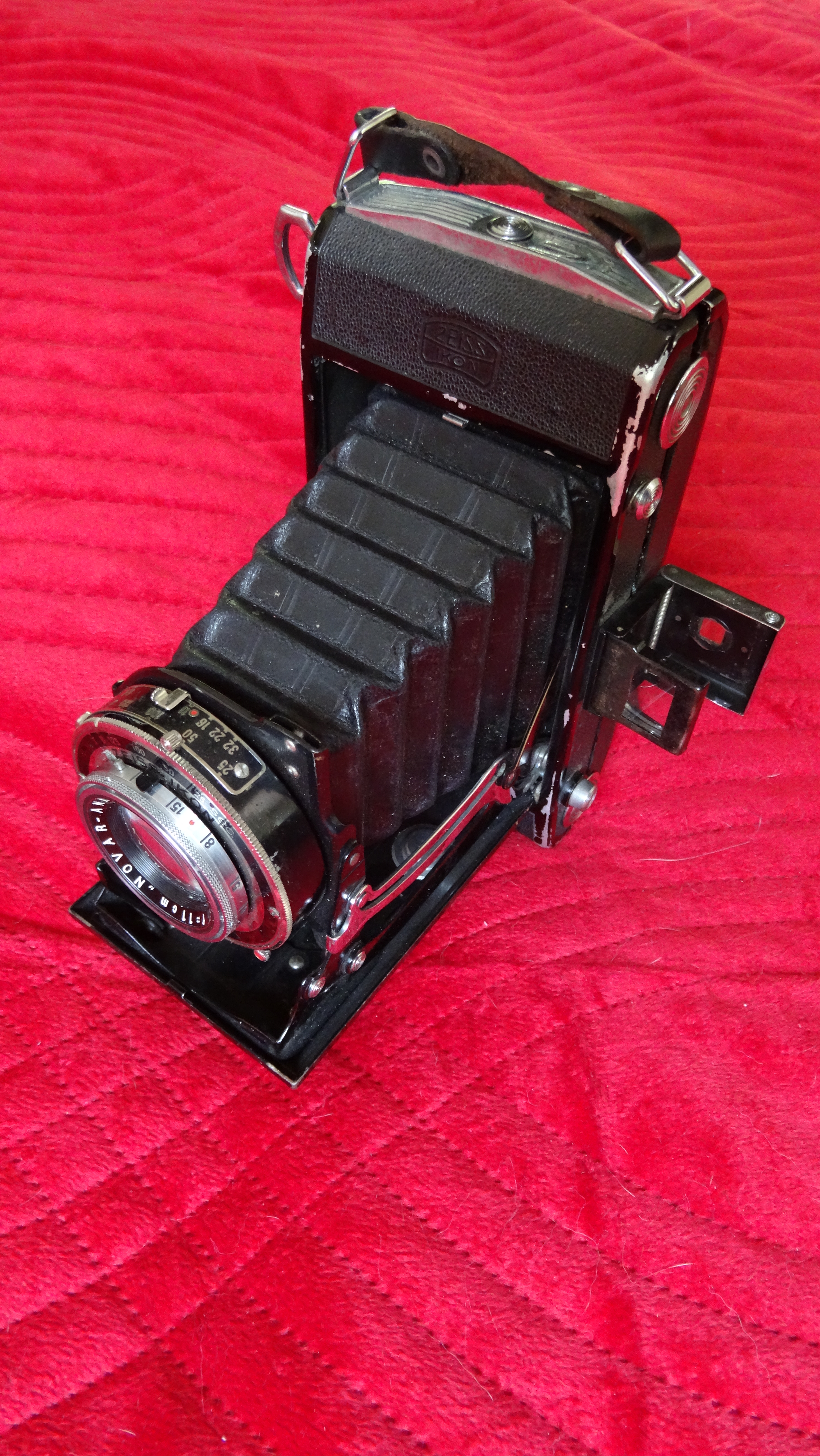 Zeiss Ikon Nettar 515-2 camera (1937), opened